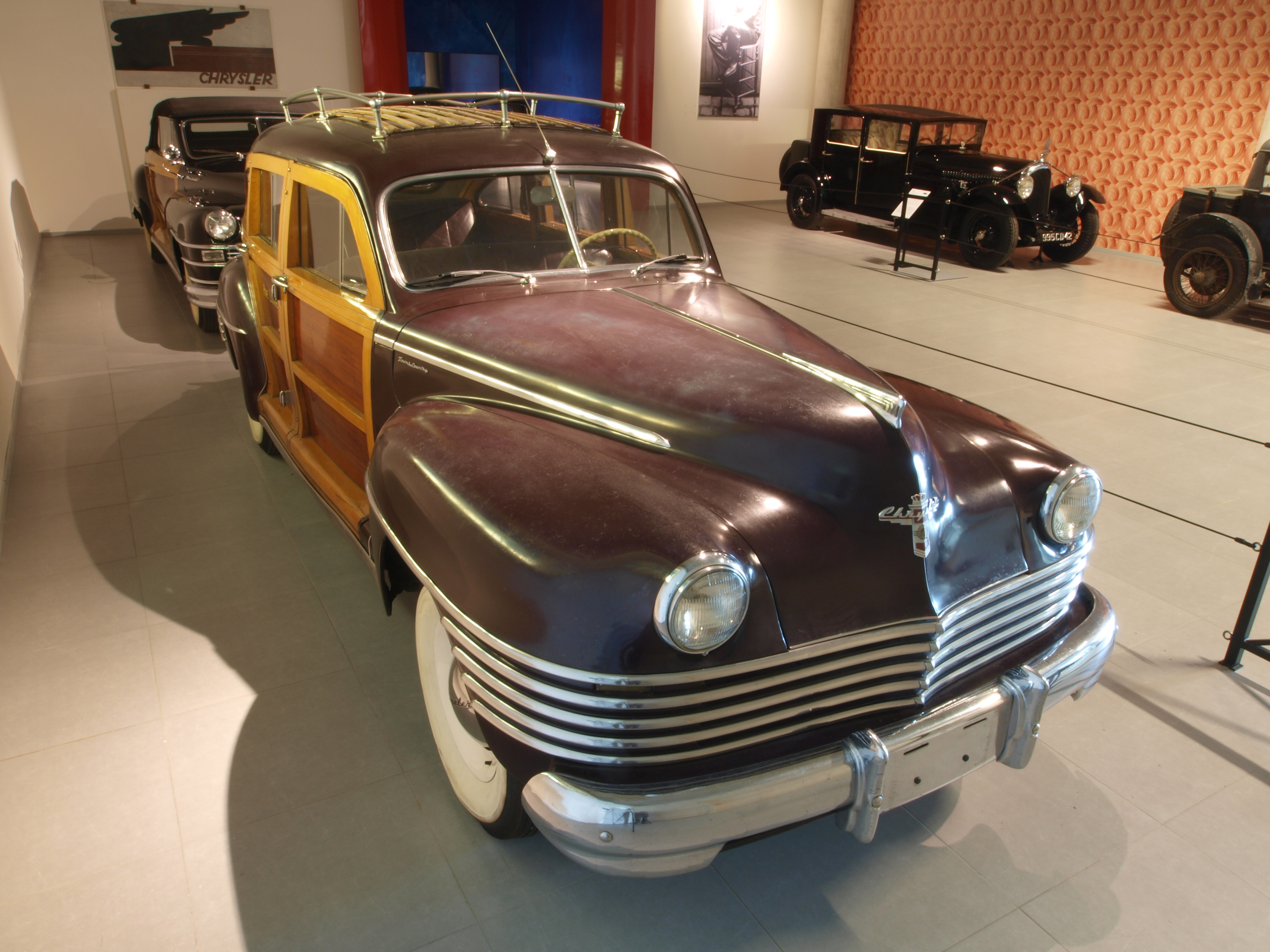 Photographed at the Louwman museum / Louwman Collection, The Netherlands.